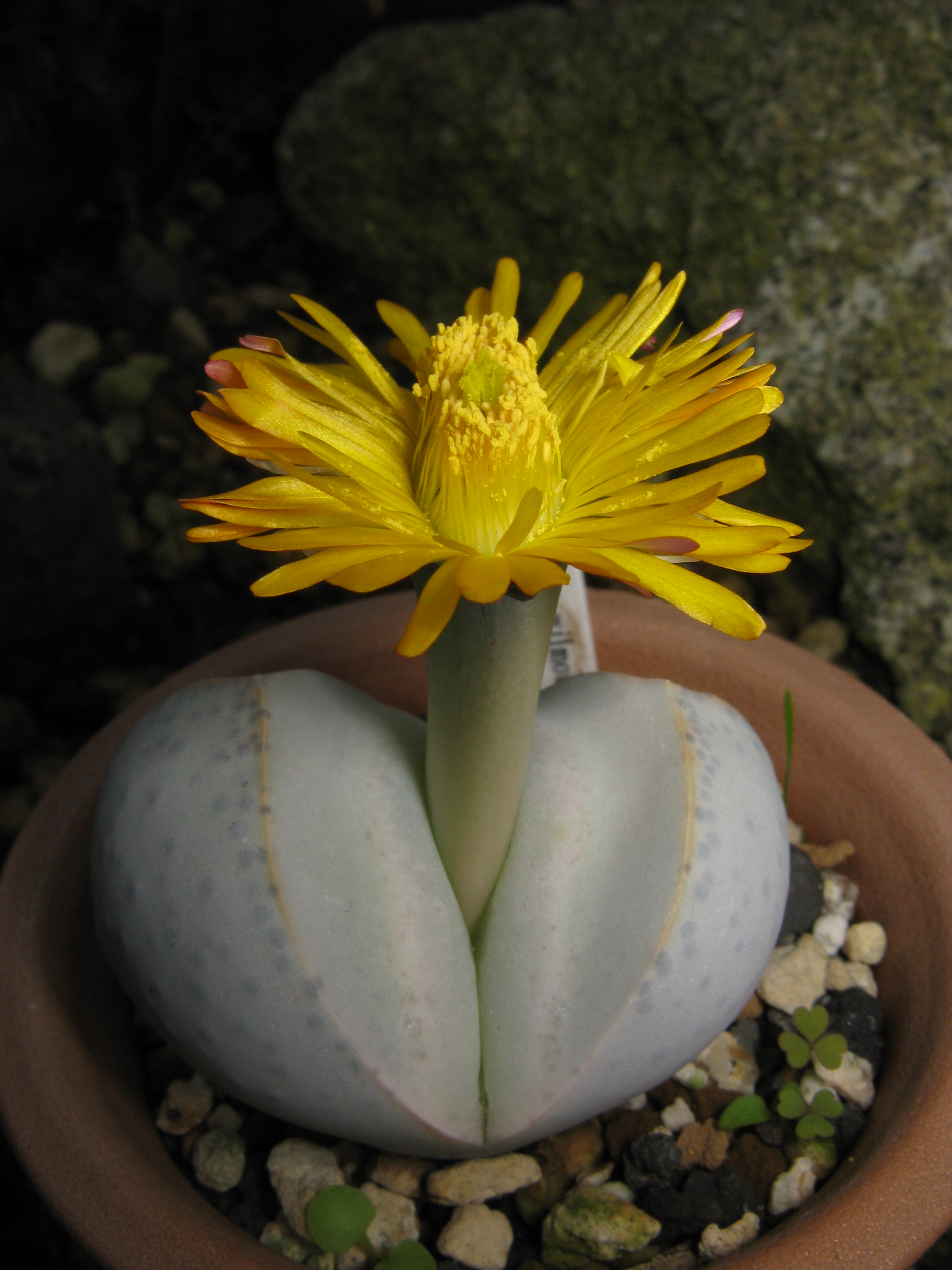 Dintheranthus wilmotianus